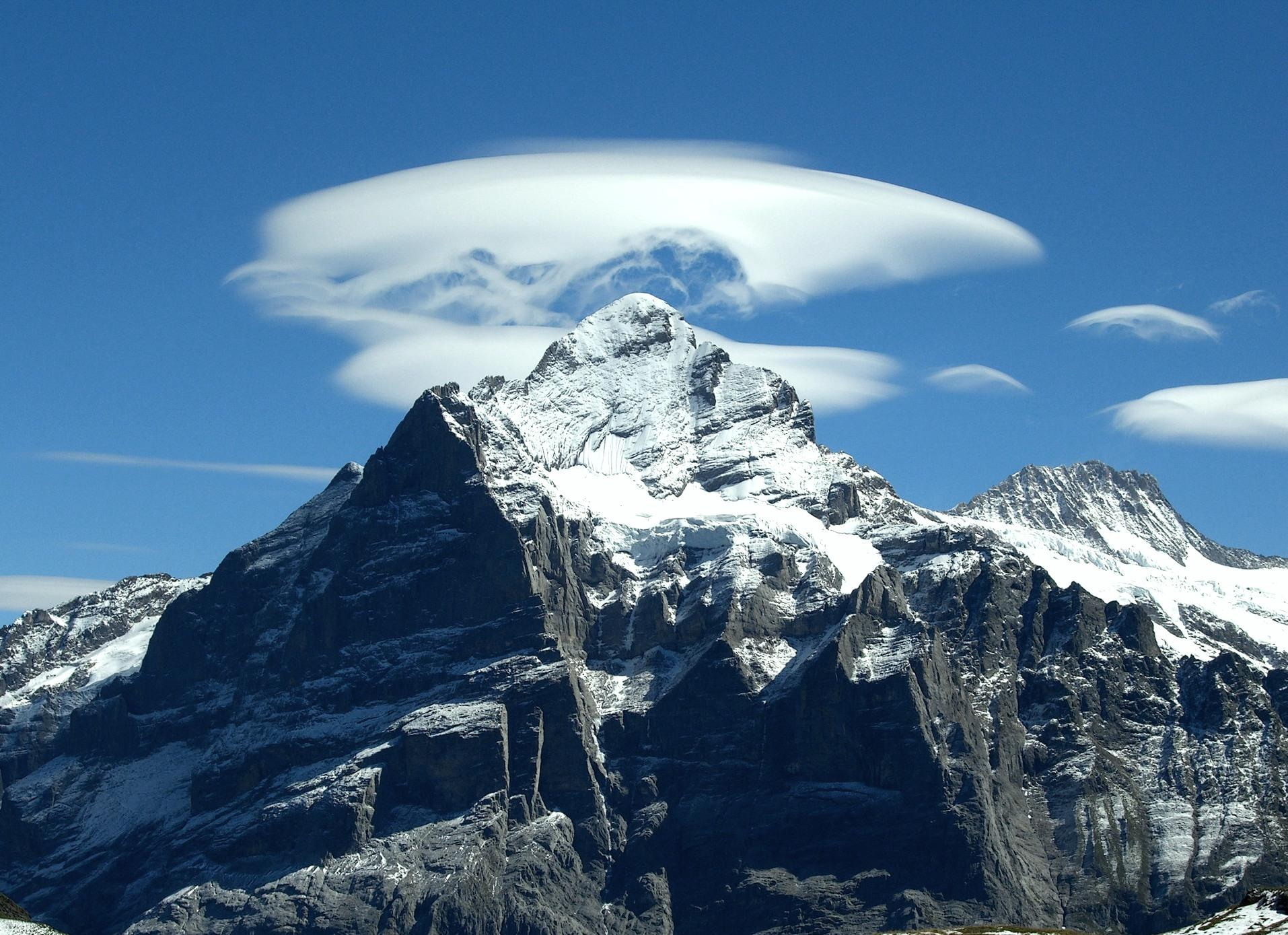 Wetterhorn and Bärglistock (on the right), Bernese Alps